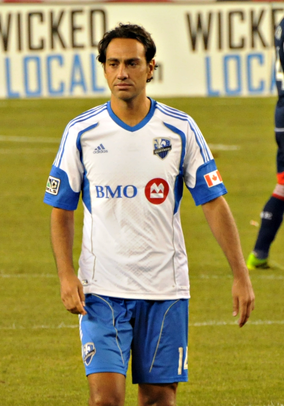 Defender Alessandro Nesta of the Montreal Impact during a Major League Soccer game against the New England Revolution in Foxborough, Massachusetts, on 7 September 2013.